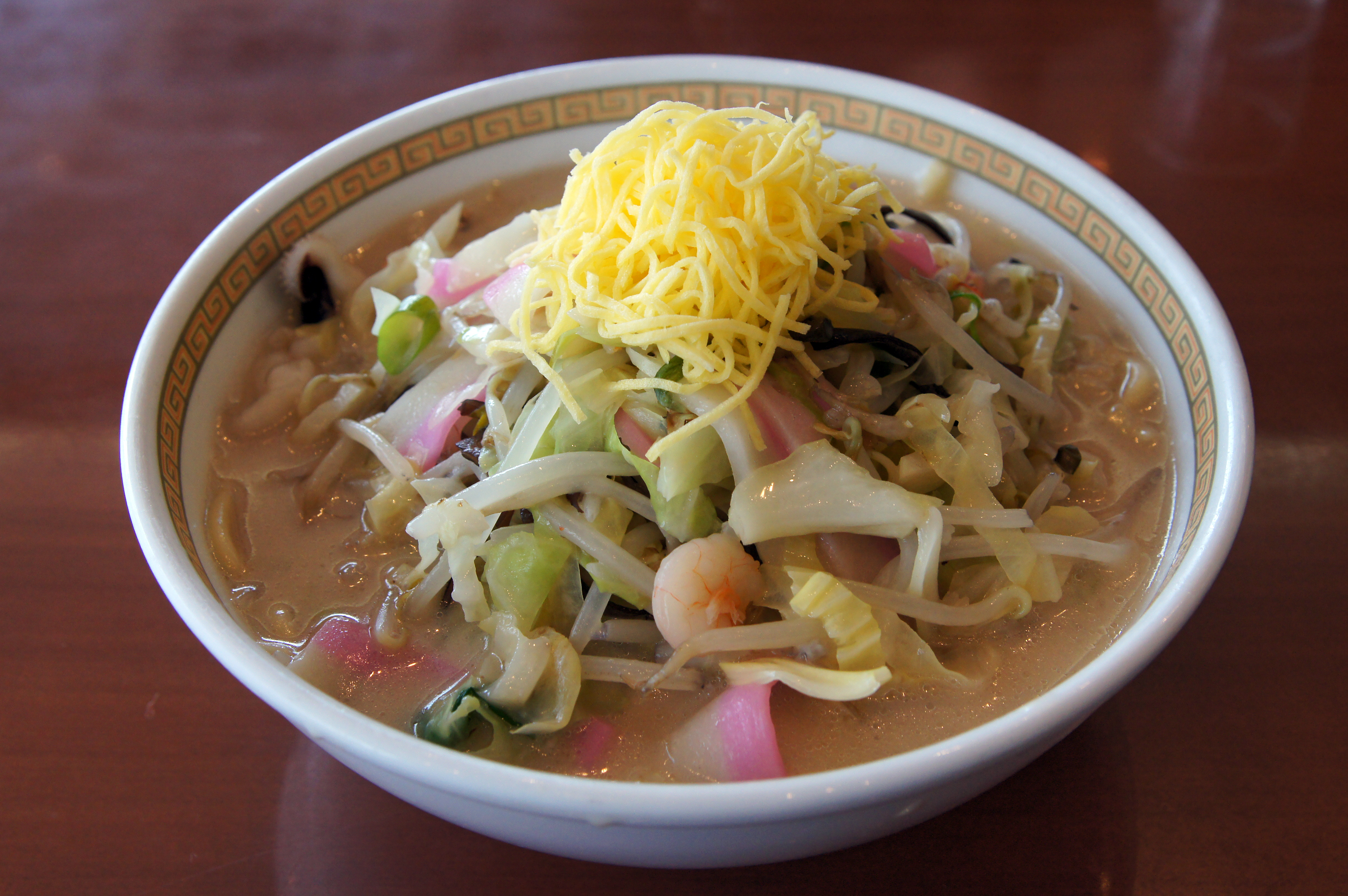 A bowl of champon noodles at the Chinese restaurant "Shikairo" in Nagasaki, Japan